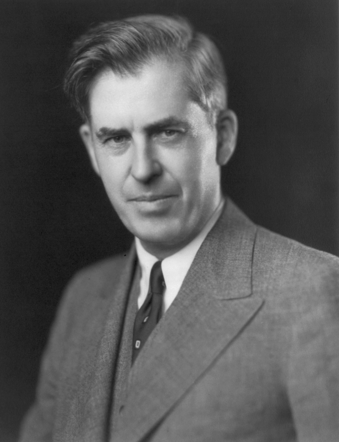 Cropped photograph of Henry Agard Wallace, 1888–1965, bust portrait, facing left.